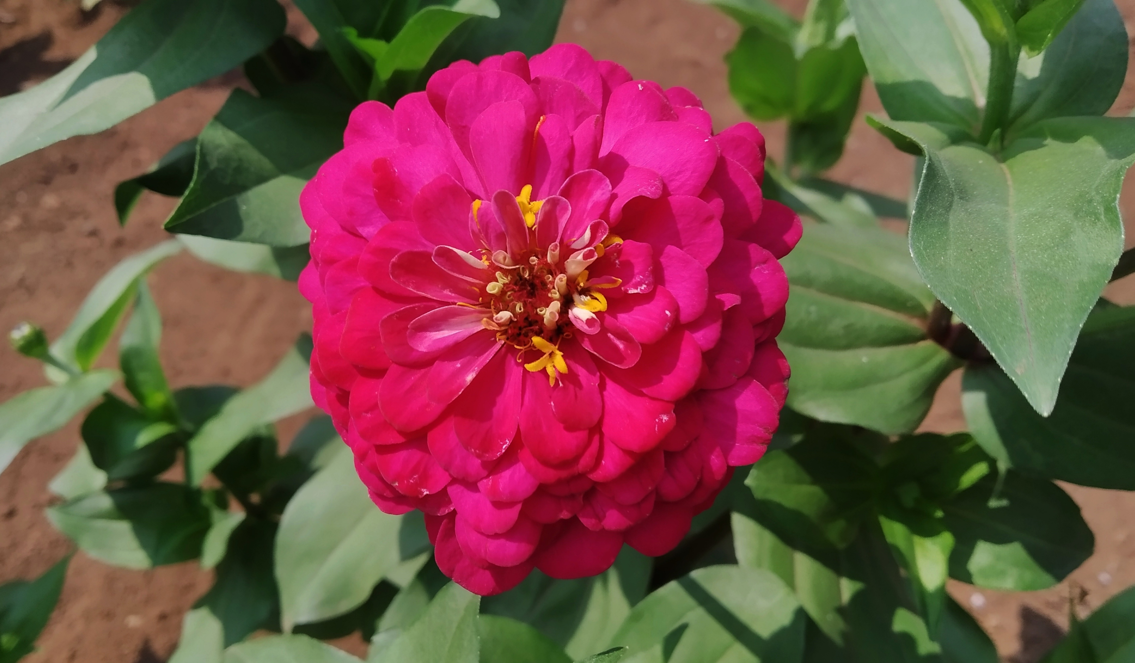 Zinnia in Indonesia